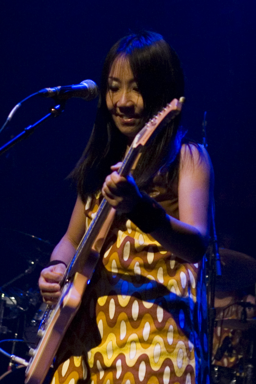 Naoko Yamano of Shonen Knife at the Gramercy Theatre